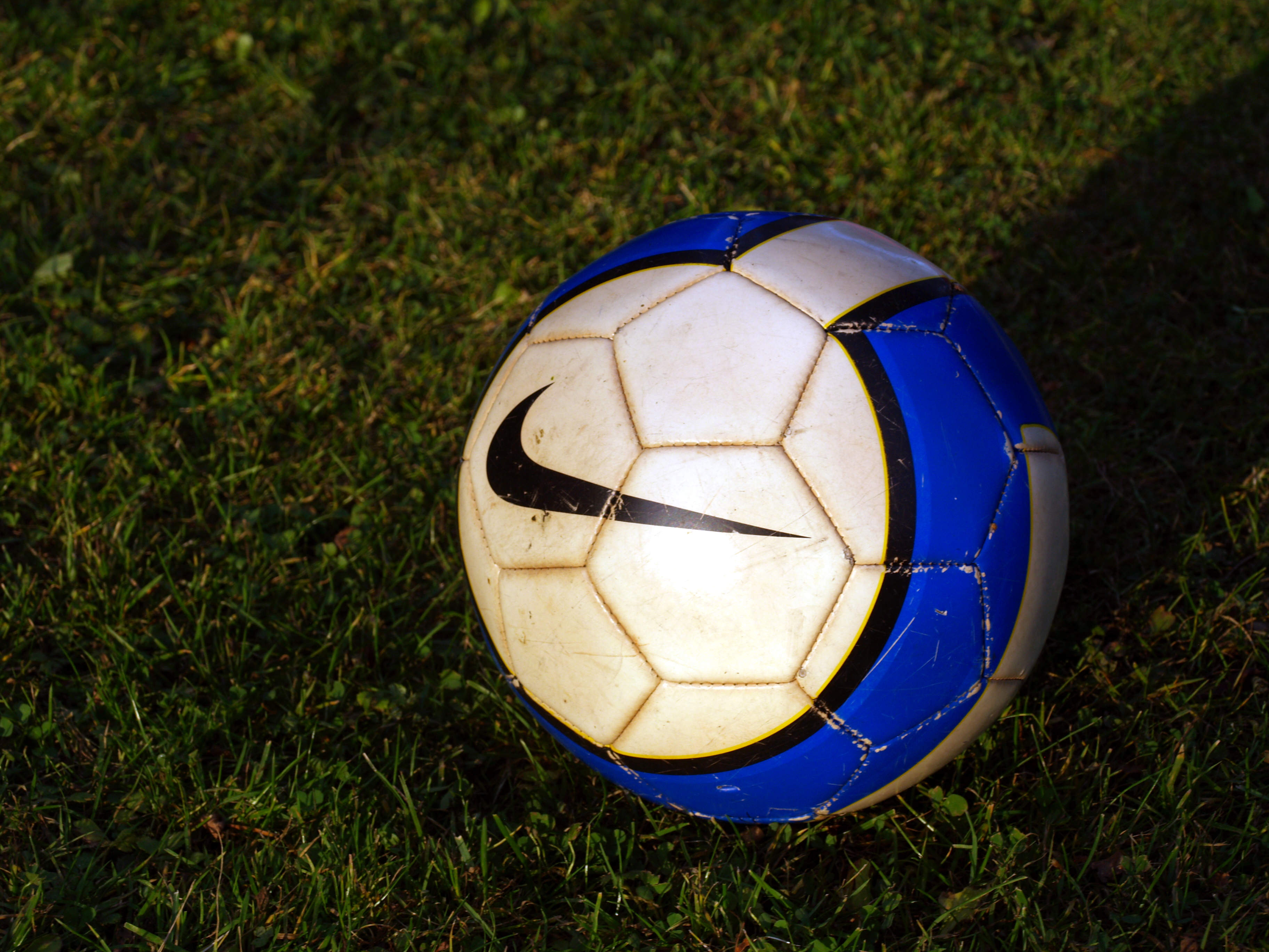 Nike Total 90 Aerow II soccer ball.